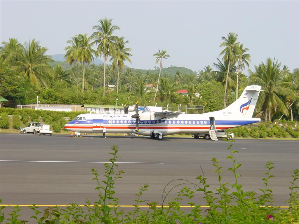 Bangkok Airways ATR 72 at Samui Airport, Ko Samui, Thailand